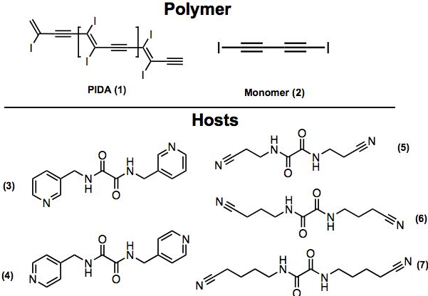 halogen bond picture one TL